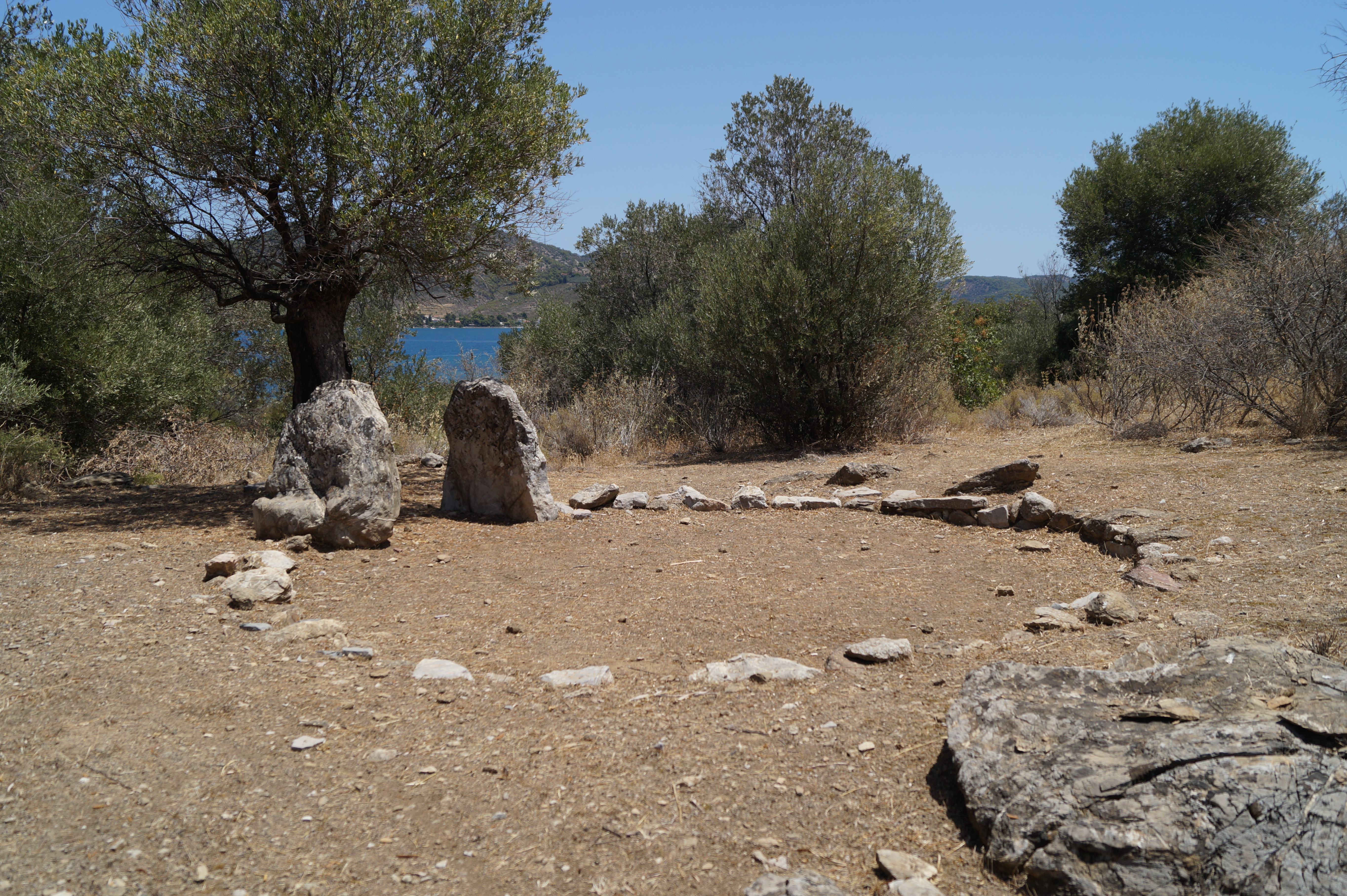 Greece, Peloponnes, Megali Magoula: Remains of tomb 3.